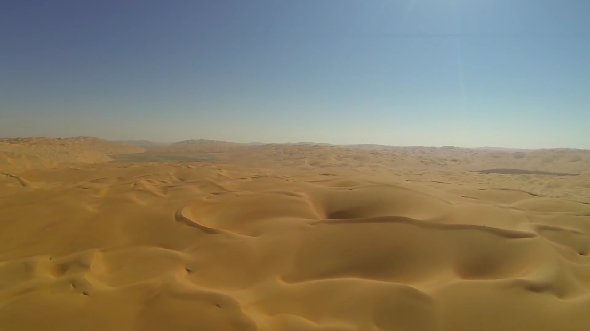 Rolling Sand Dunes Of Abu Dhabi near Liwa